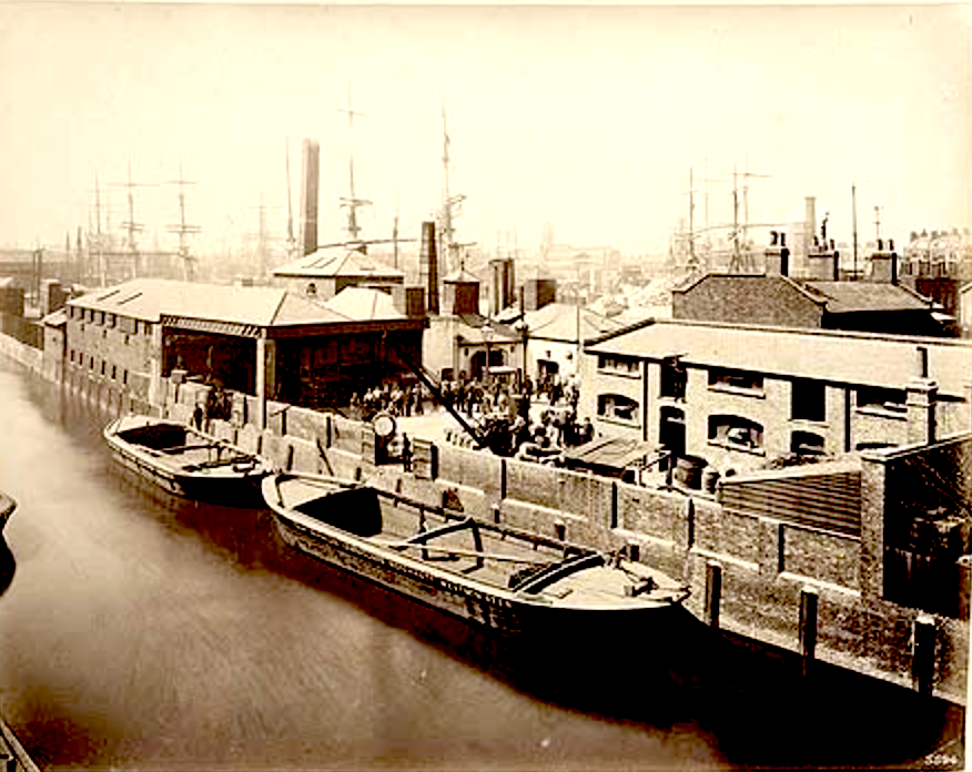 The Island Lead Mills, 1885, then owned by Farmiloe Lead Glass Merchants, with their barges on the foreground on the Limehouse Cut